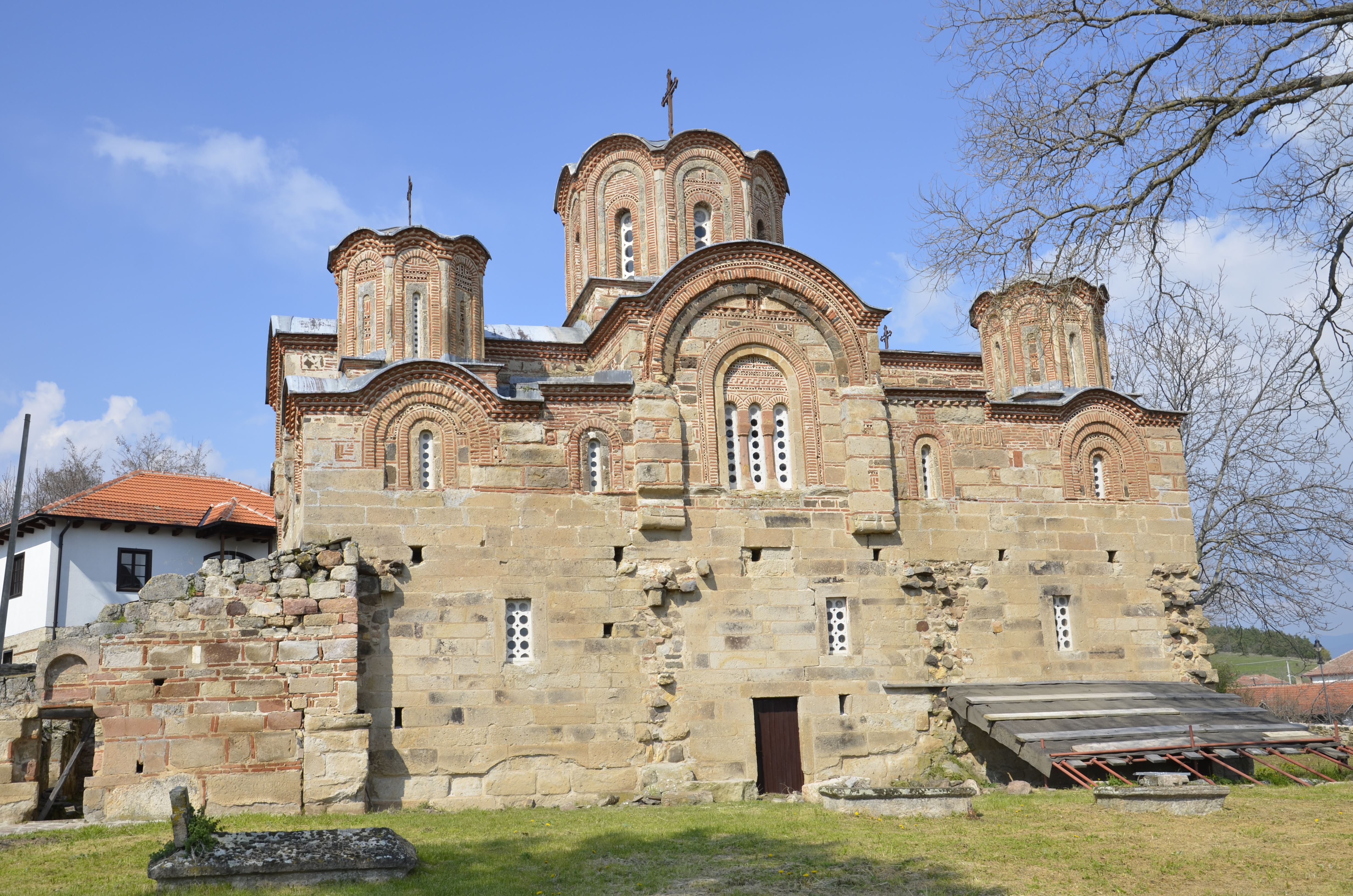 Church of Saint George in Staro Nagorichino, south side